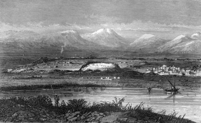 Wood engraving of "The thrones and palaces of Babylon and Nineveh" by John Philip Newman.